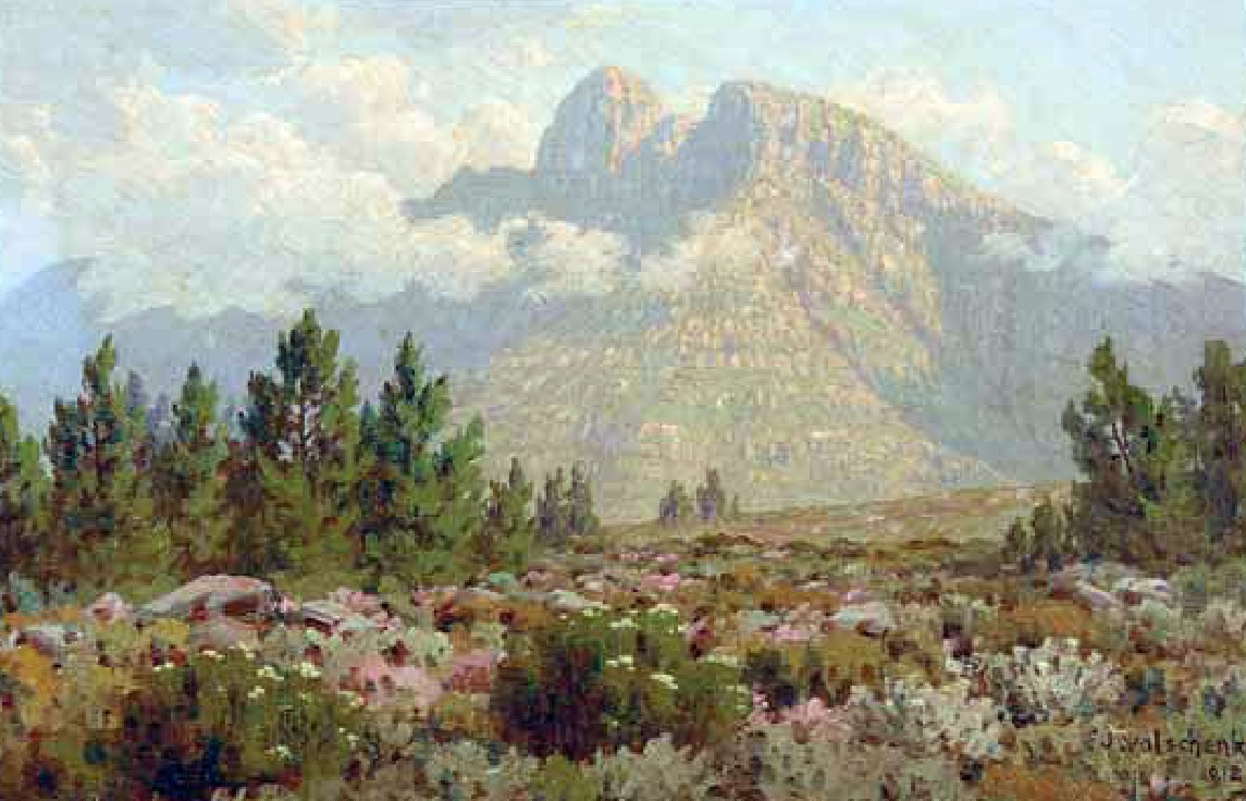 Mountain cypresses, heather etc, 22 x 34,5cm